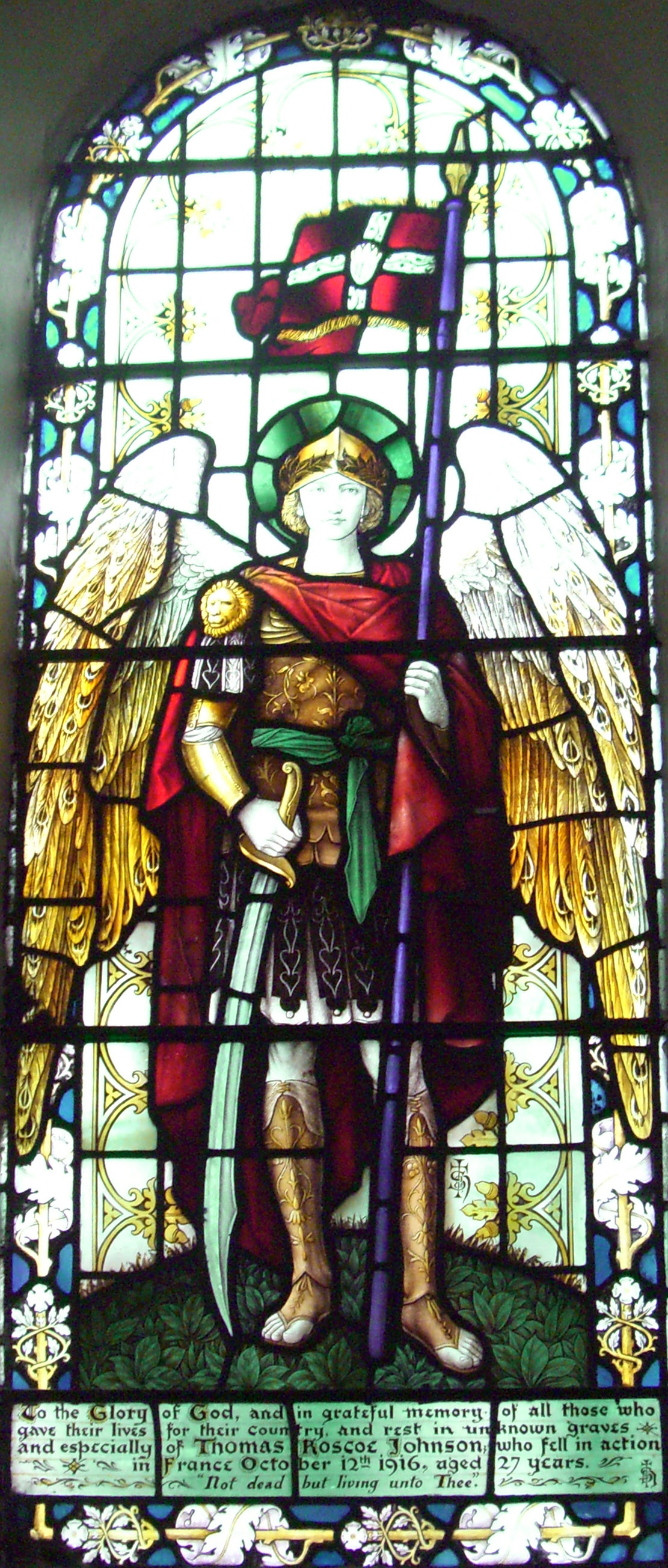 The stained glass window in the south wall of Newlands Church, Cumbria, England depicts St. Michael.